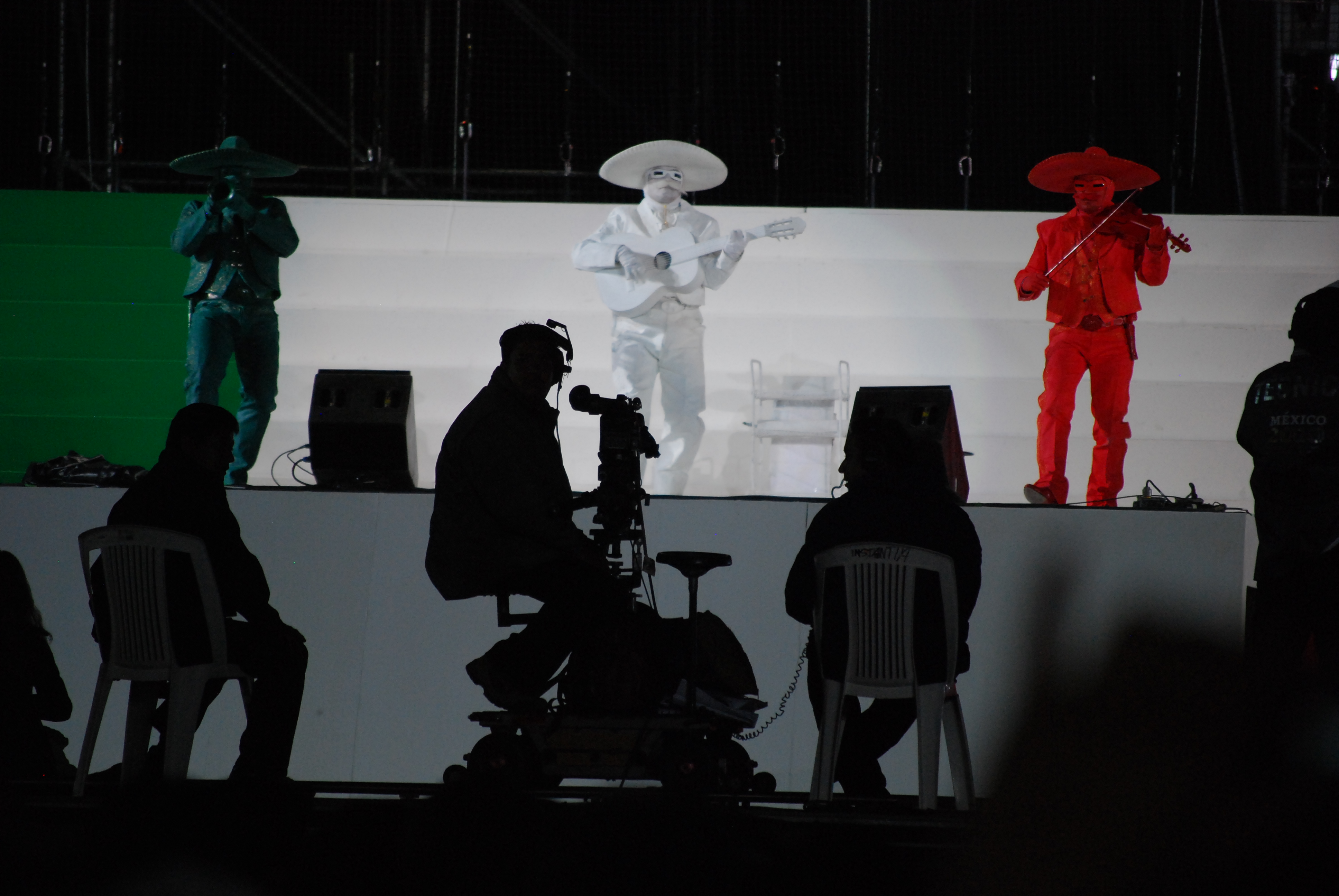 Performers called "Mariachi Clown" at the Zocalo before the Grito 2010